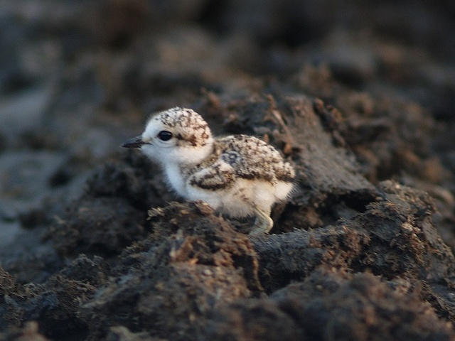 Charadrius dubius, baby bird, Changhua County, Taiwan, 2008.